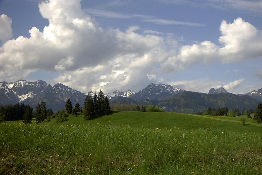 The Bavarian countryside and Alps as seen from the Romantic road.